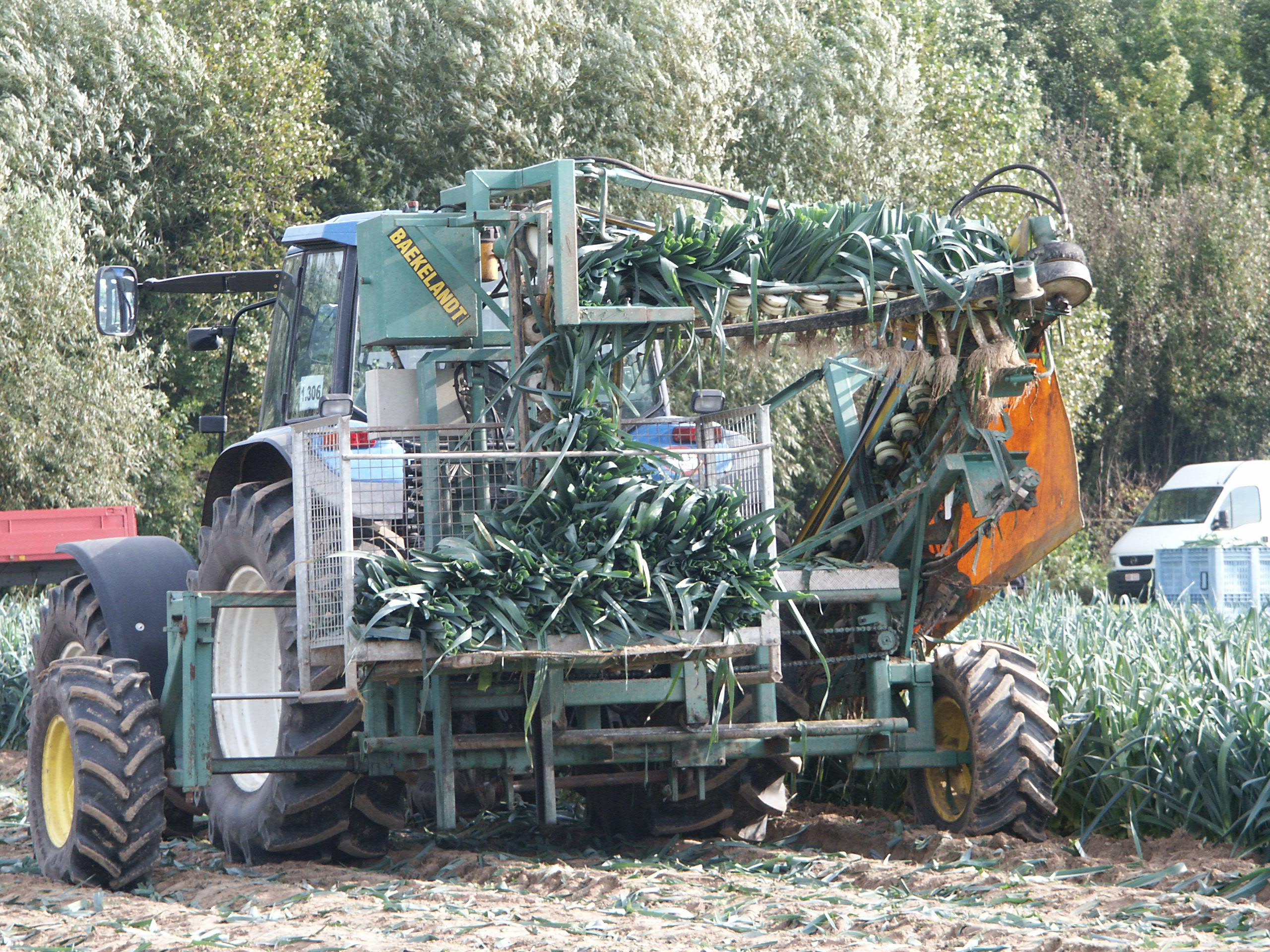 Allium porrum harvest, harvesting machine at Werktuigendagen 2005